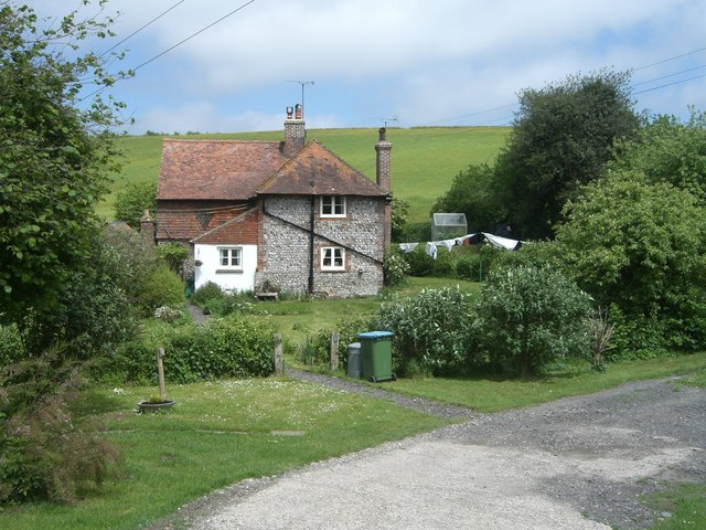 Pest House, Findon The Pest House or a way of isolating those with infectious diseases, see more at